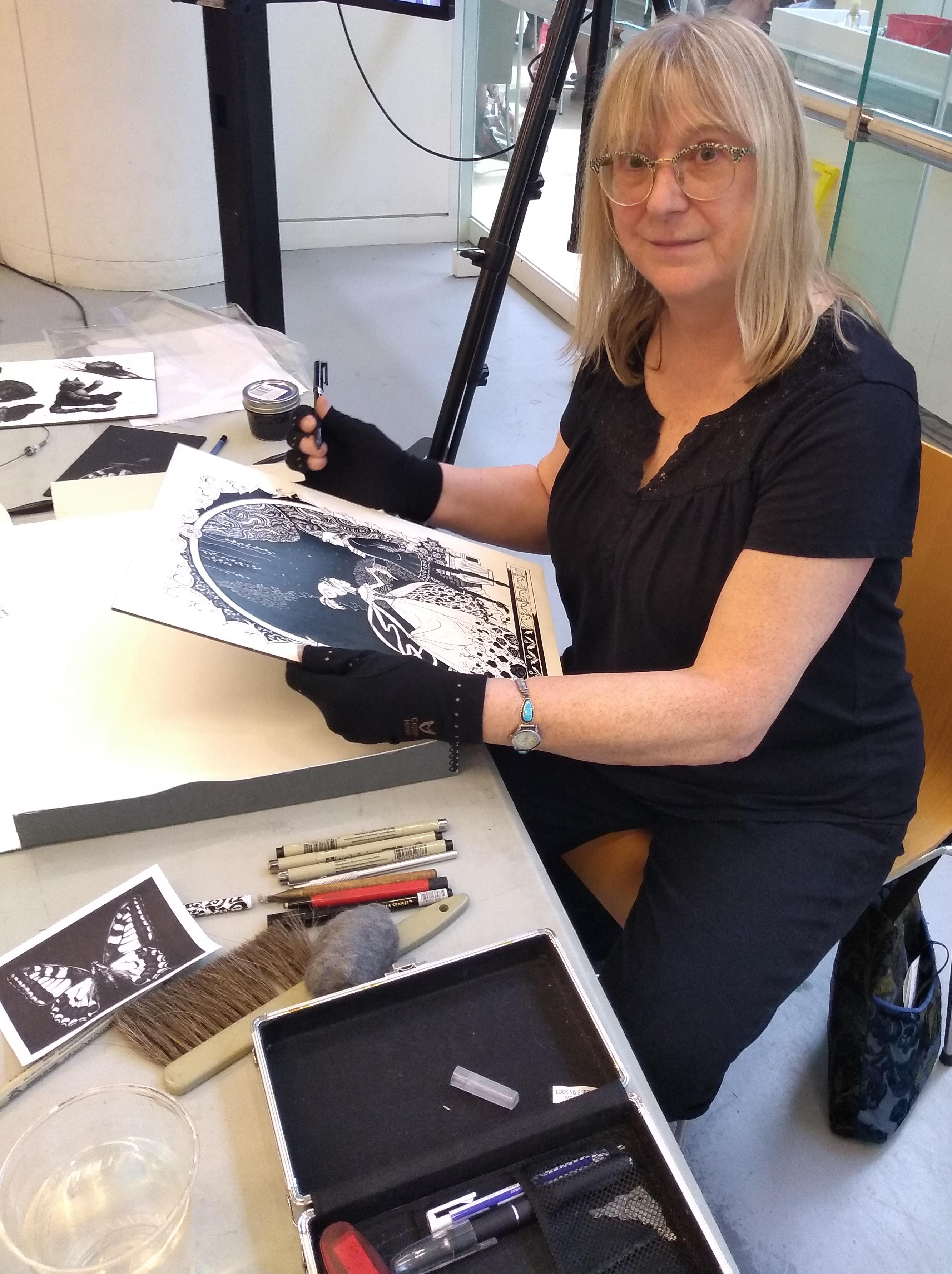 American illustrator Ruth Sanderson demonstrating clayboard and scratchboard children's illustration at Boston Museum of Fine Arts in honor of their Kay Nielsen exhibit.